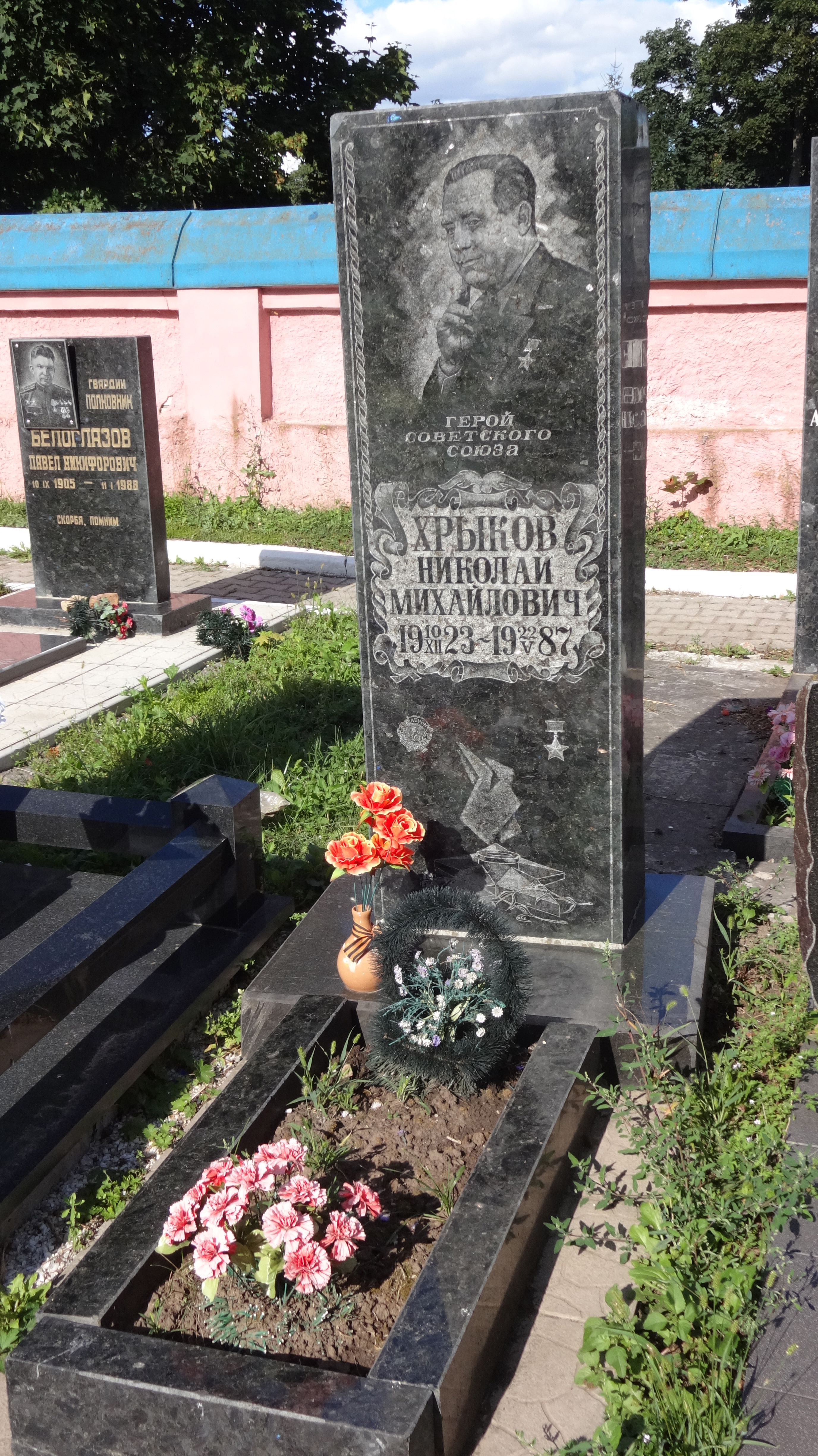 Gravestone of Nikolay Mikhailovich Khrykov, Hero of the Soviet Union, in Oryol.